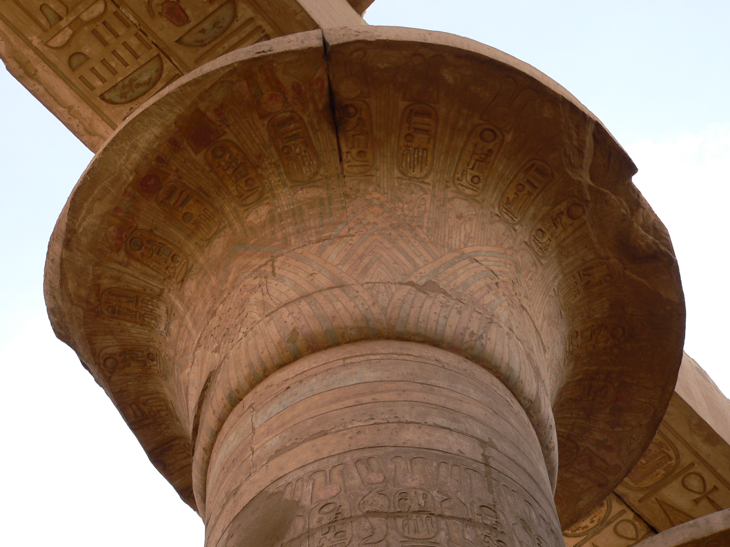 A colorful column's head at the Karnak Temple